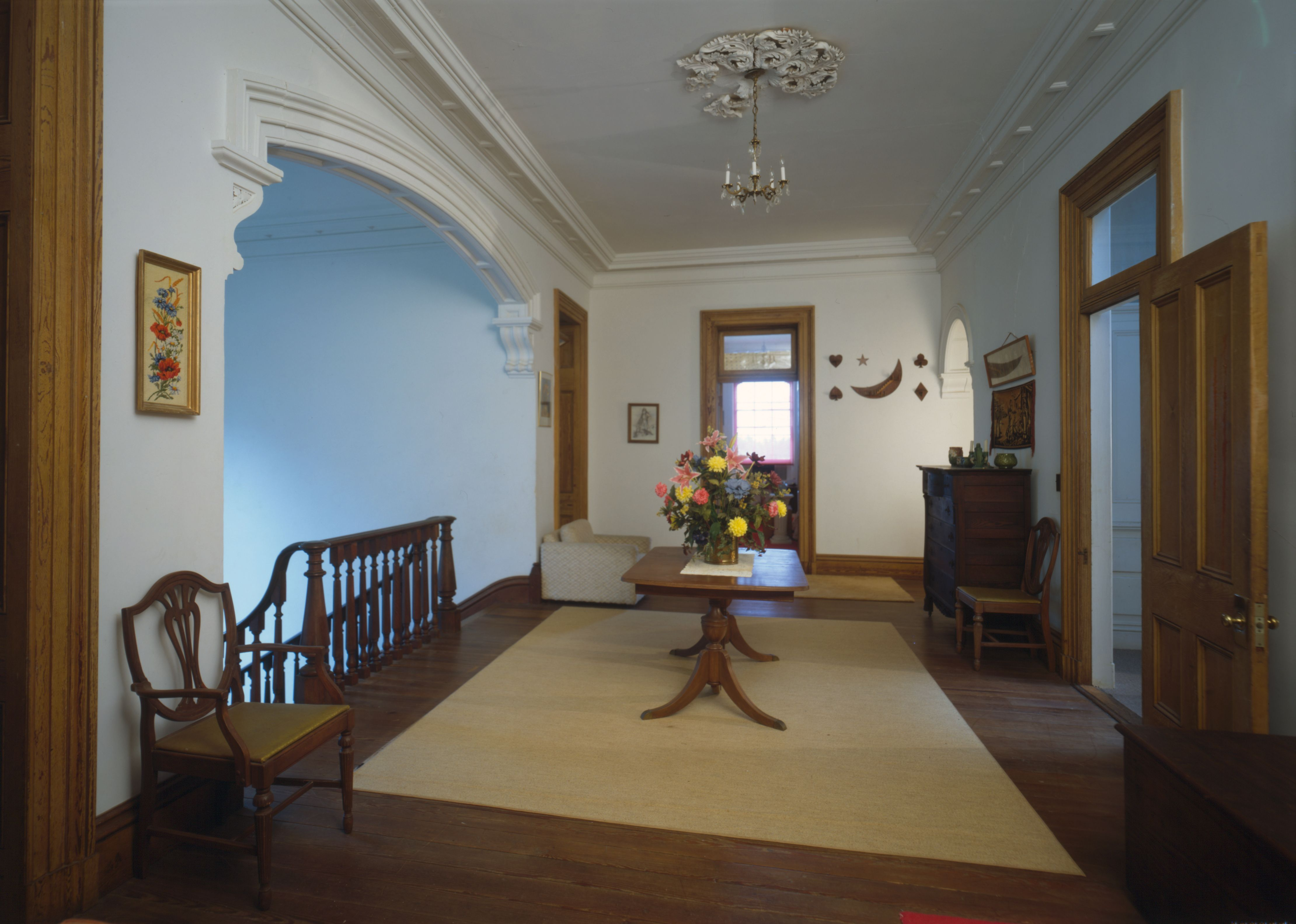 Kenworthy Hall, State Highway 14 (Greensboro Road), Marion, Perry County, AL. SECOND FLOOR CROSS HALL. al93.